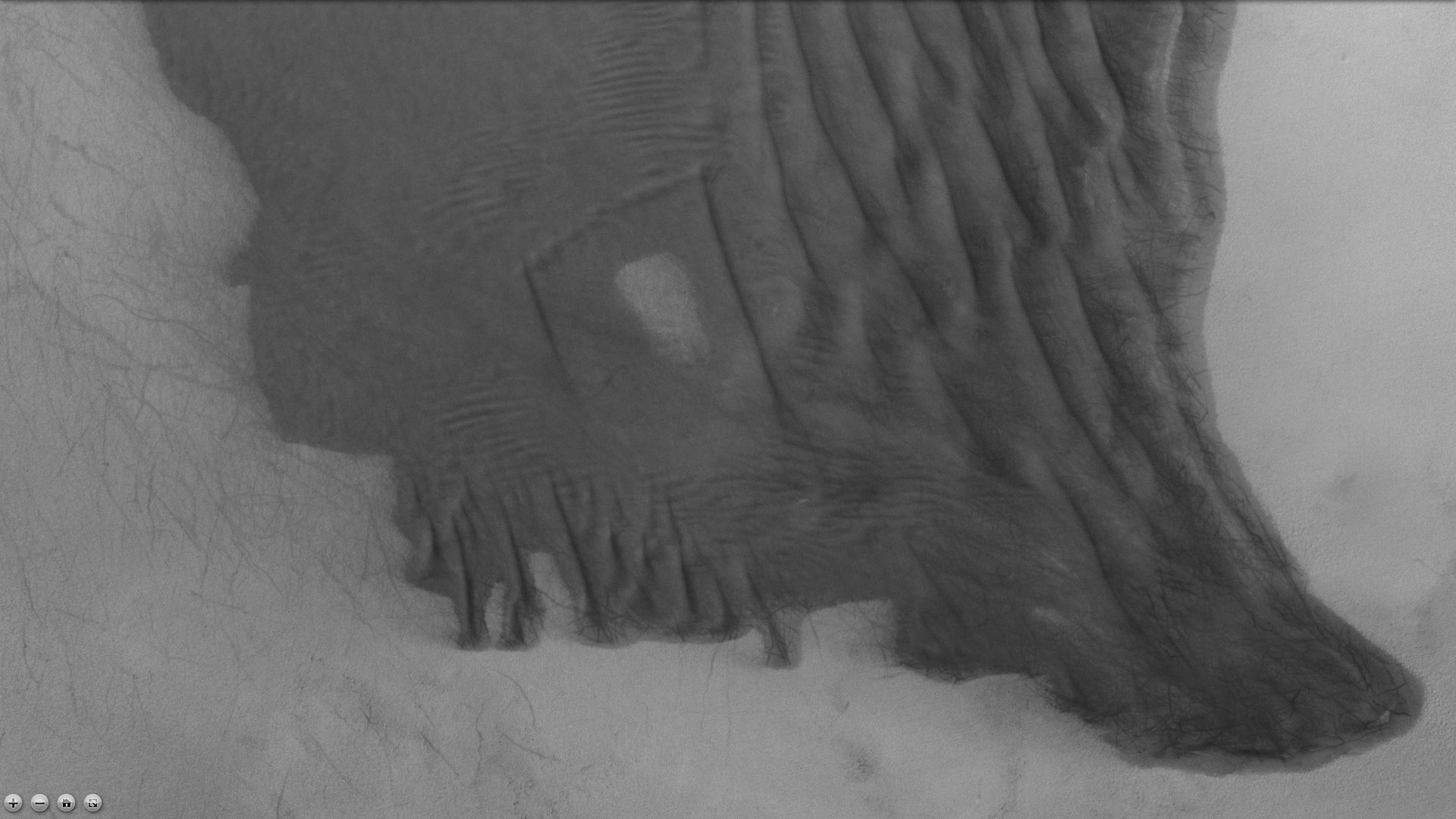 Schmidt crater showing dunes and dust devil tracks, as seen by ctx